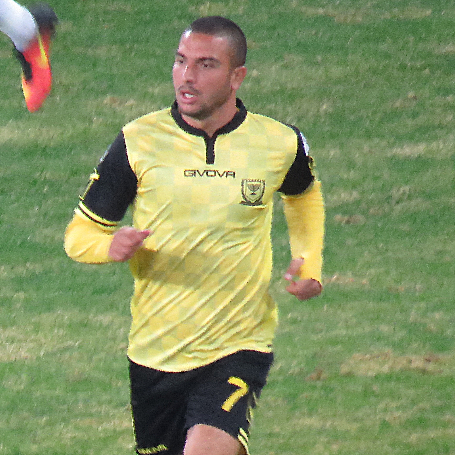 December 2016